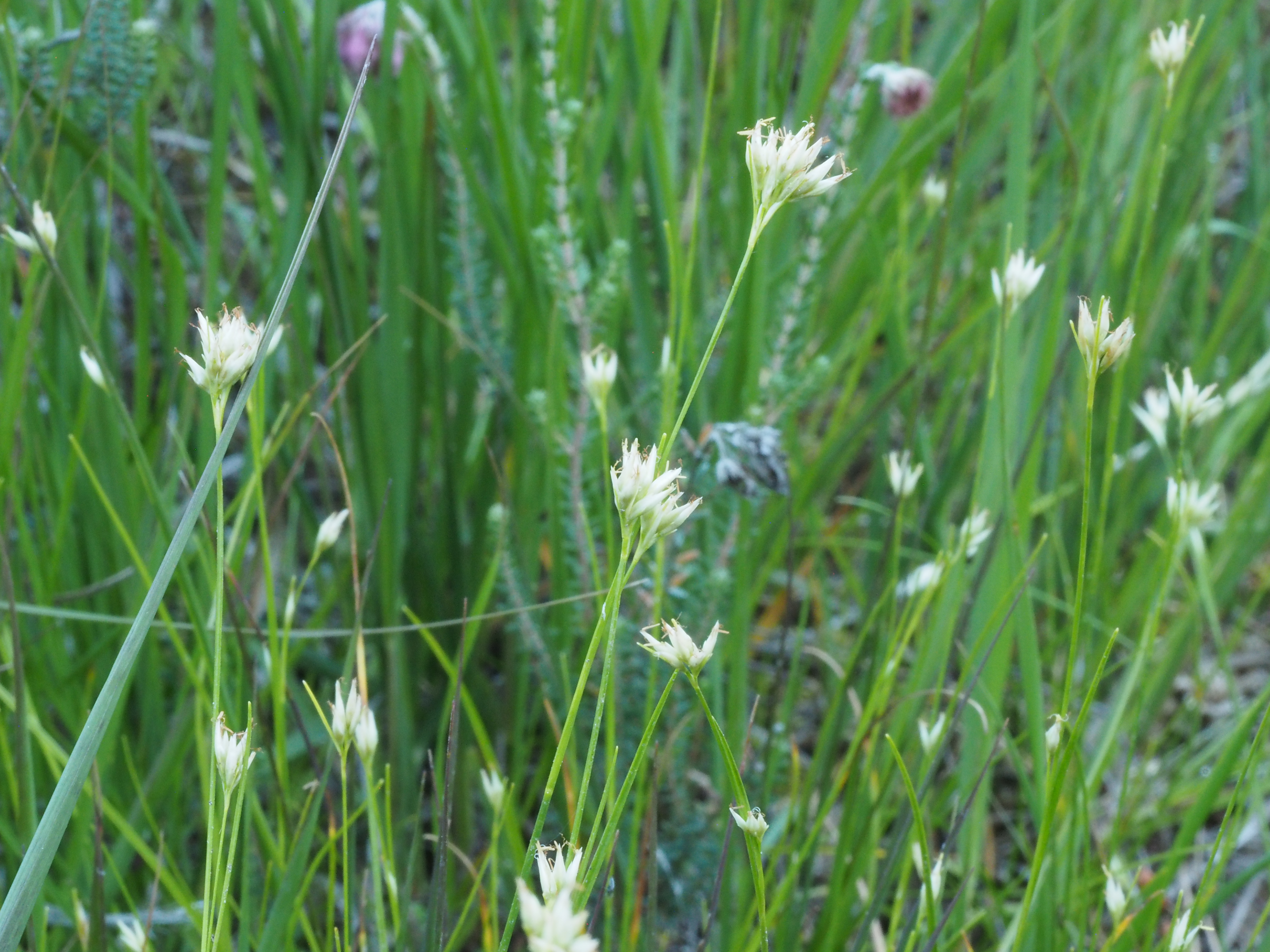 Rhynchospora alba "Southern Heath Nature Park", Germany